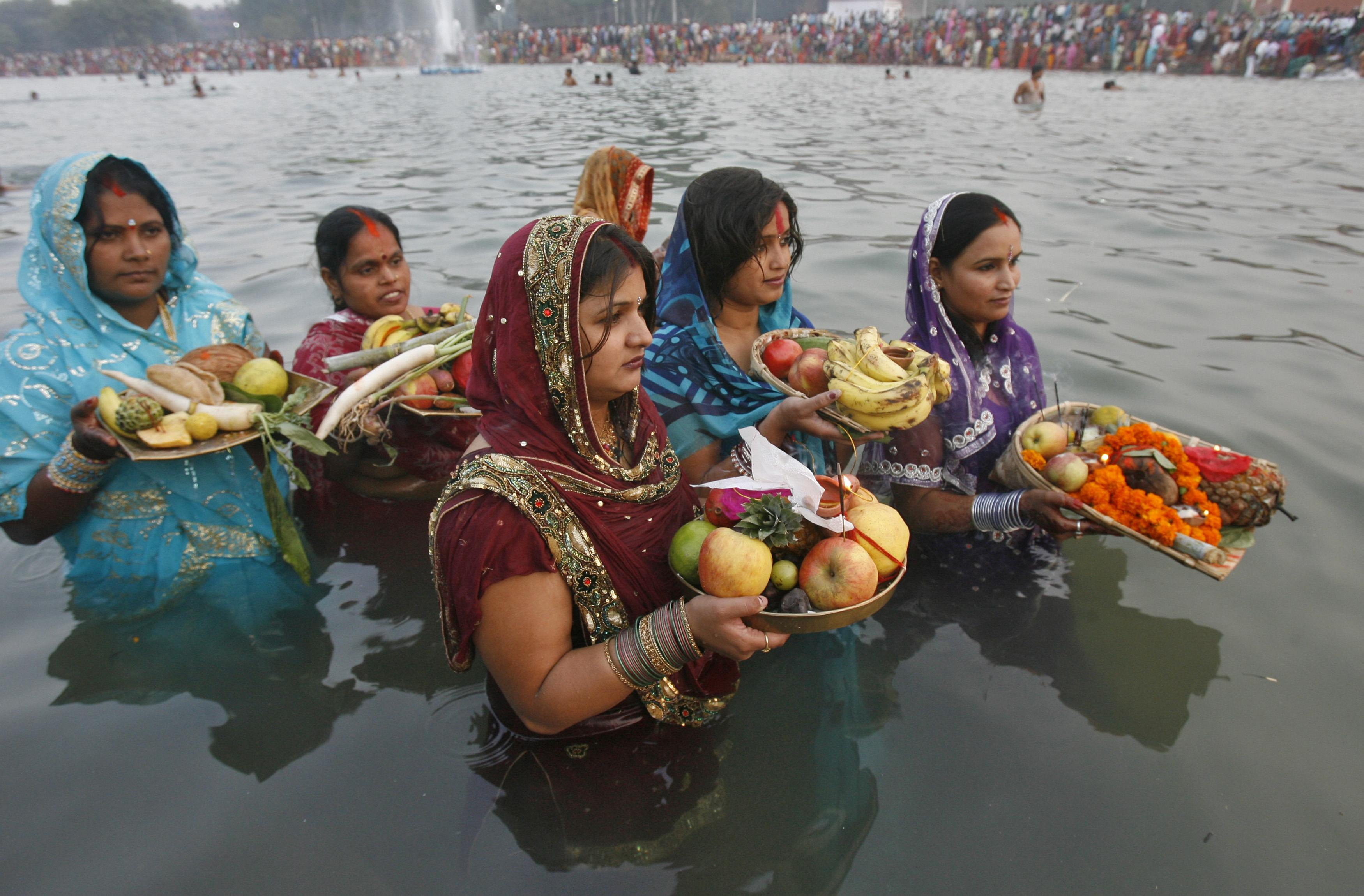 Chhath Puja of Bihar